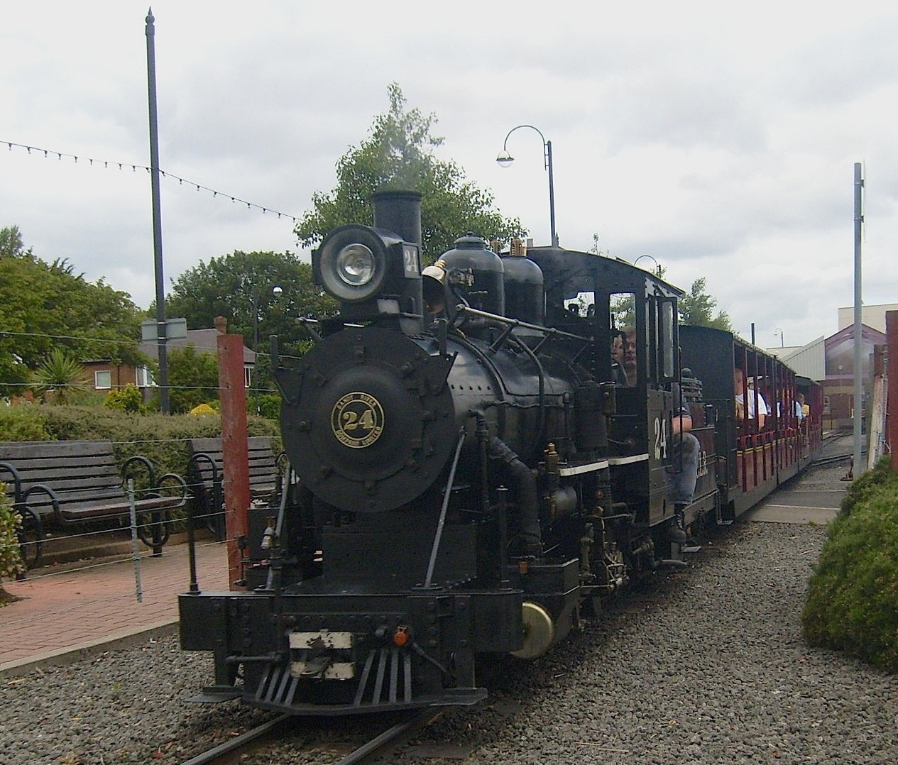 SR&RL 2-6-2 No. 24 departing Kingsway railway station with a train bound for Humberston